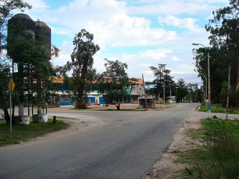 Main intersection in Pajas Blancas, Montevideo, Uruguay.